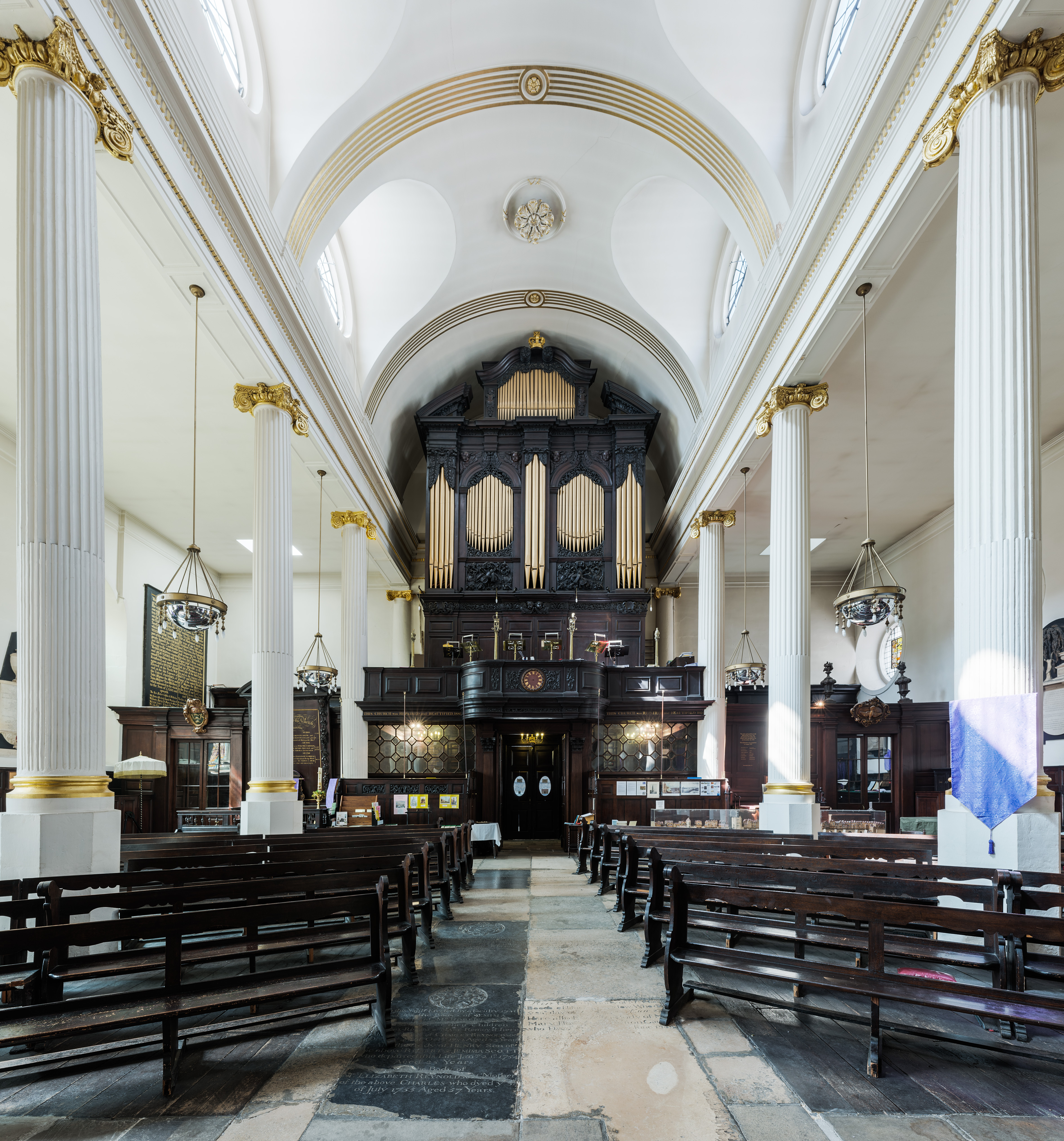 The interior of St Magnus-the-Martyr Church, facing the organ.